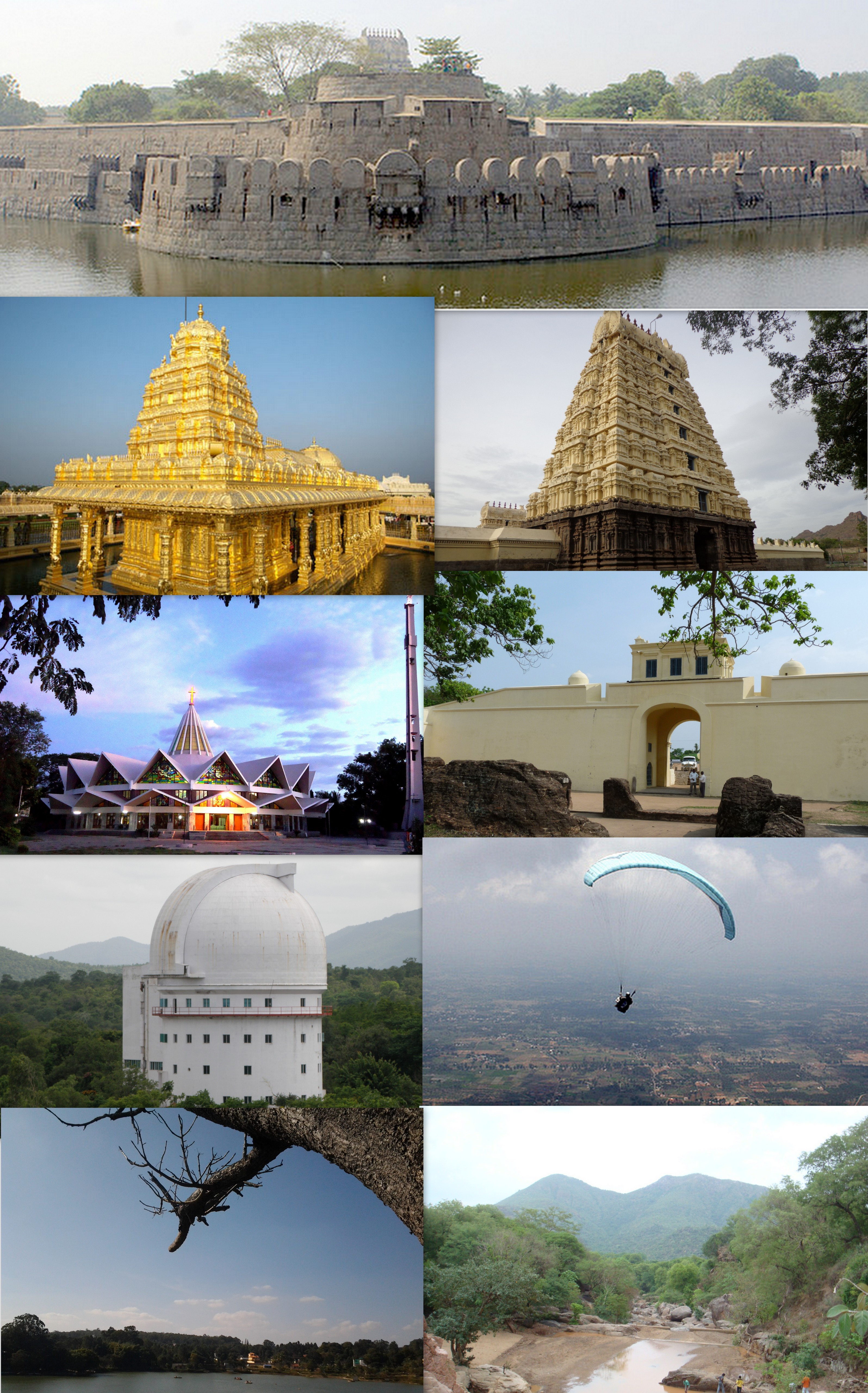 Vellore Fort - ; Kavalur Observatory - ; Golden Temple - Delhi Gate, Arcot - Amirthi Zoological Park - Assumption Cathedral - ; Yelagiri Paragliding